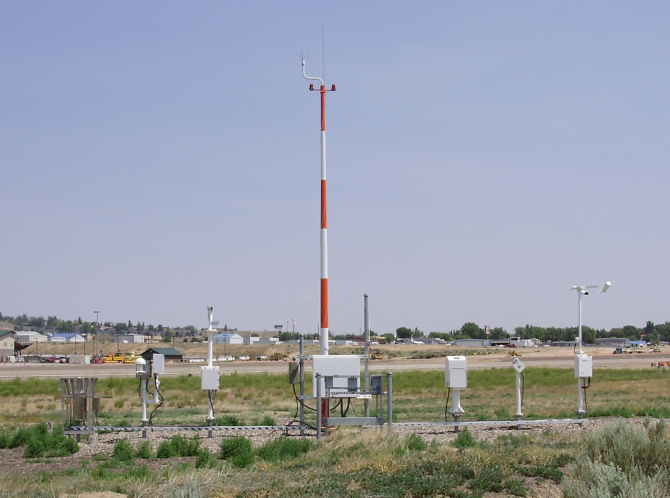 Elko ASOS viewed from the south cropped